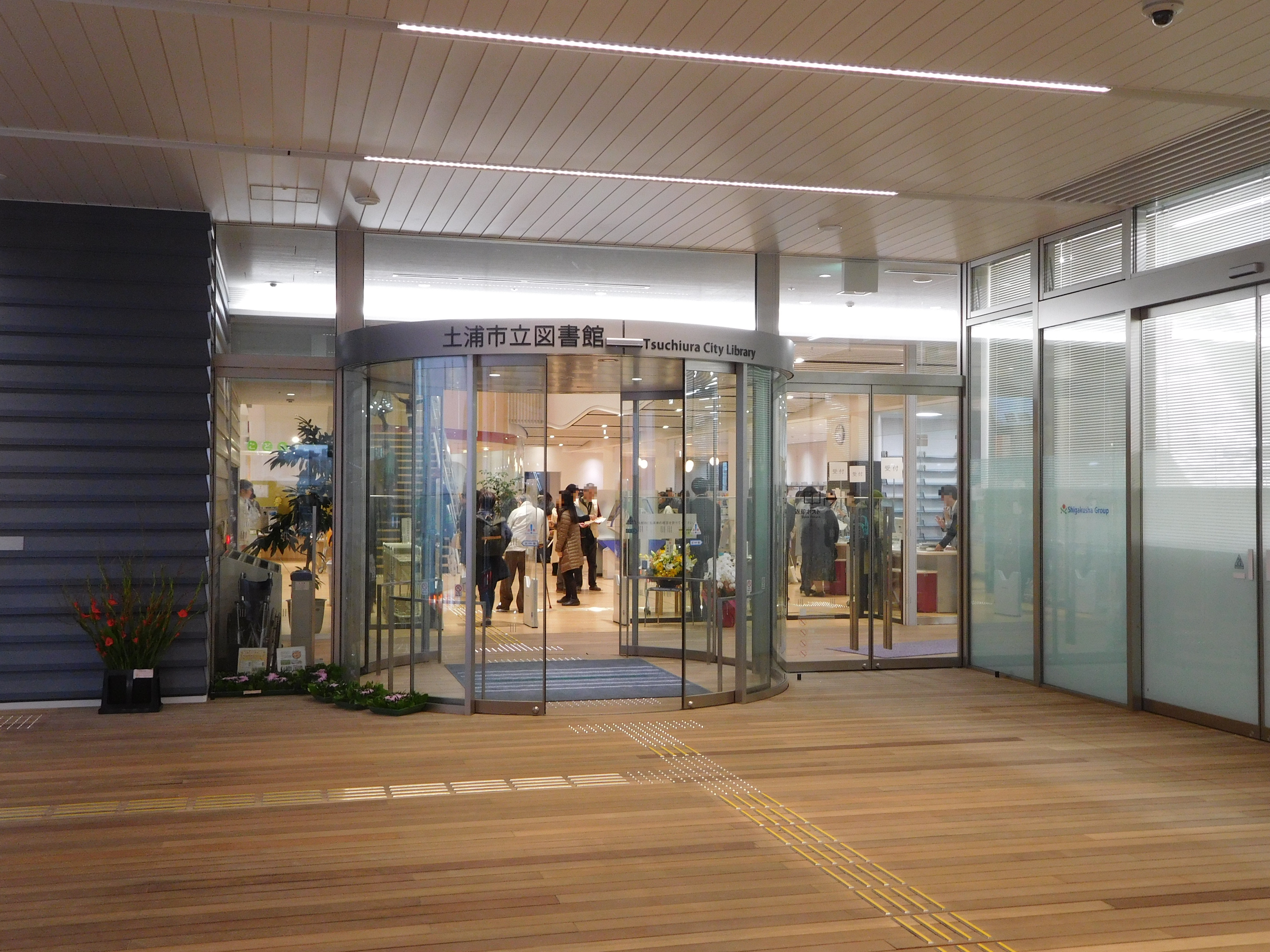 Tsuchiura City Library in Tsuchiura, Ibaraki, Japan. It is in the 2nd floor of ARCUS Tsuchiura.